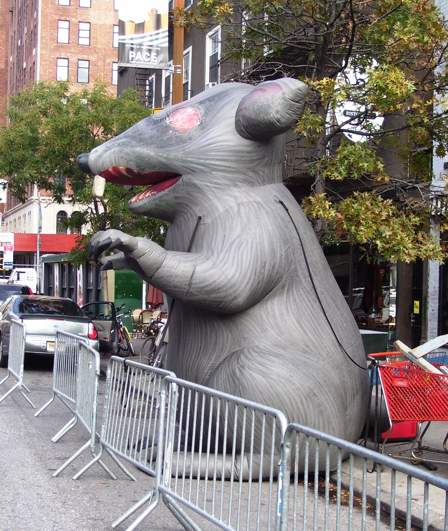 A giant inflatable rat displayed at the site of a union dispute, on Tenth Avenue near 23rd Street, Manhattan, NYC